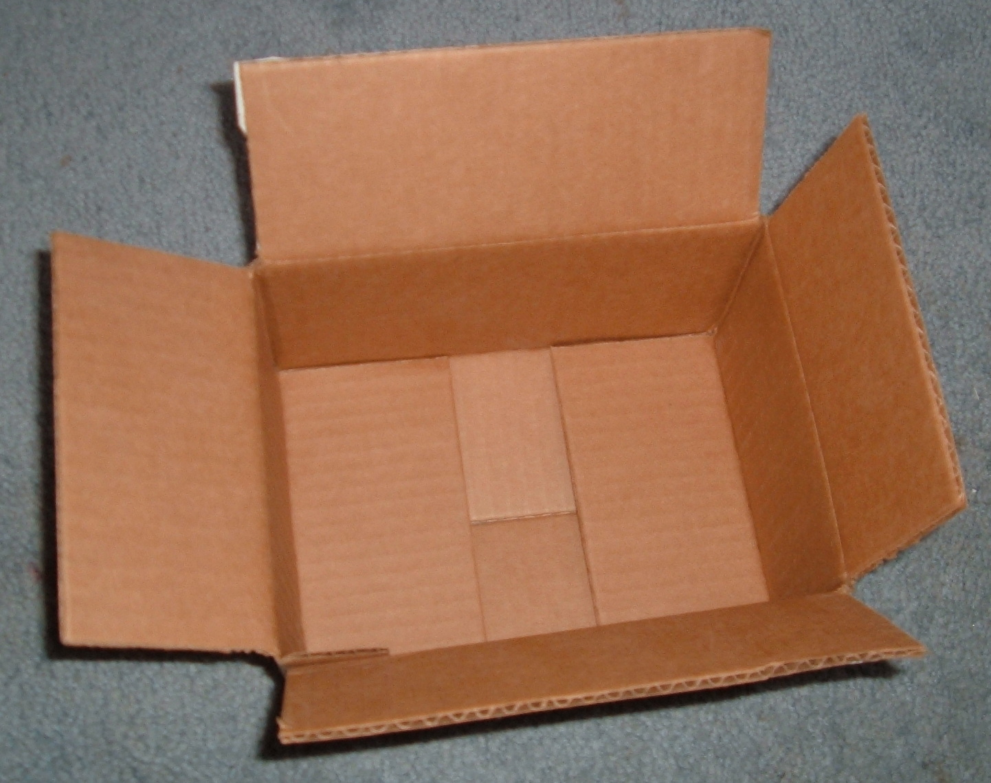 Cardboard box. One of a series of common objects I photographed in the summer of 2005 to illustrate Basic English picture wordlist. --agr 21:08, 3 August 2005 (UTC)